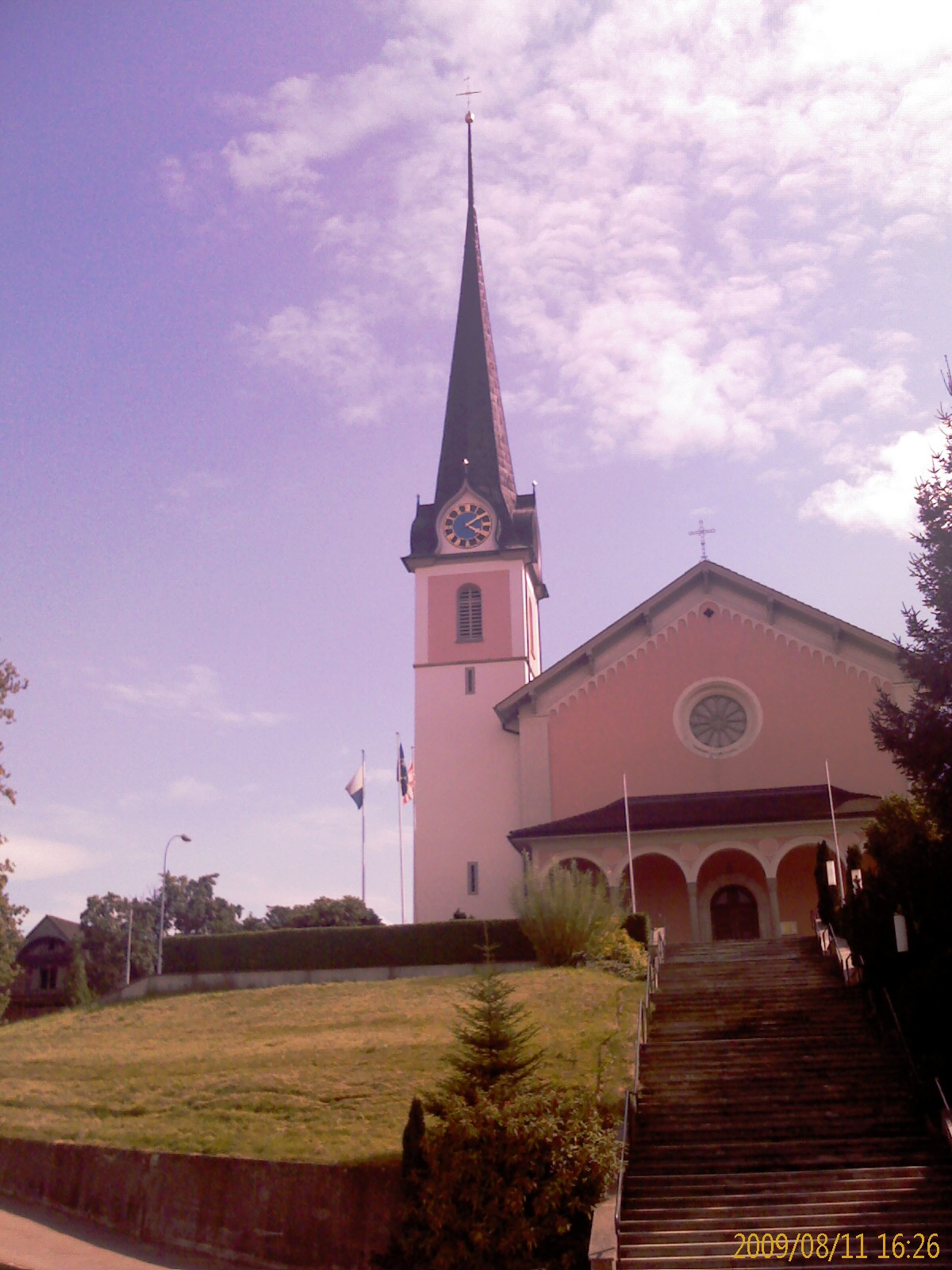 Church of Ballwil, canton of Luzern, SwitzerlandEsperanto: Preĝejo de Ballwil, Kantono Lucerno, Svislando